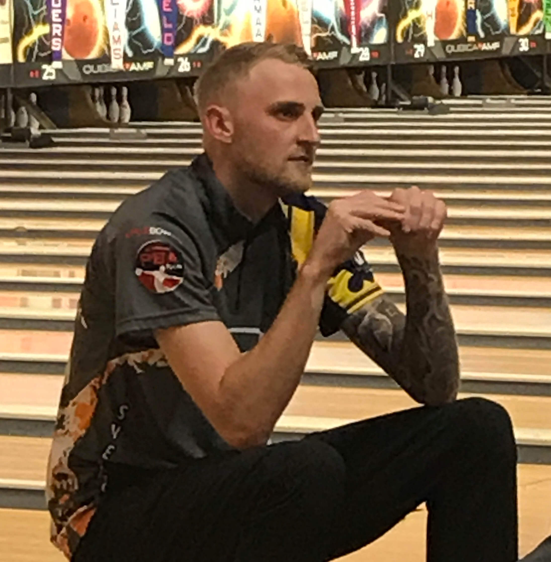 Photograph of Swedish ten-pin bowler Jesper Svensson (bowler) on August 16, 2019 before a tournament in Middletown, Delaware, U.S.